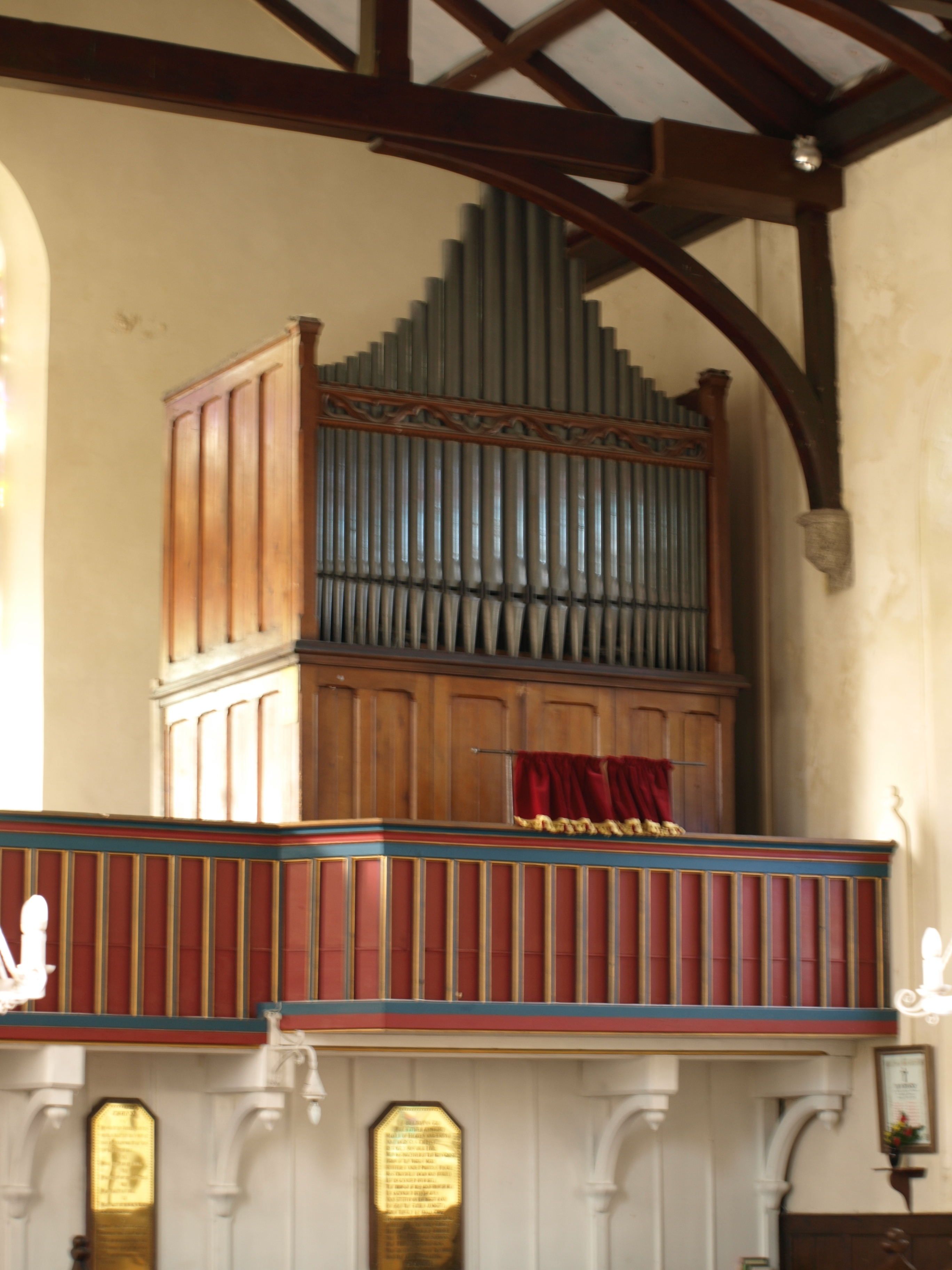 St Mary's New Church, Hugh Town, Isles of Scilly